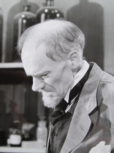 Albert Edward Anson as Dr Gottlieb in Arrowsmith (1931).